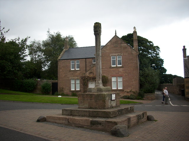 The Market Cross, Cockburnspath, Berwickshire, Great Britain